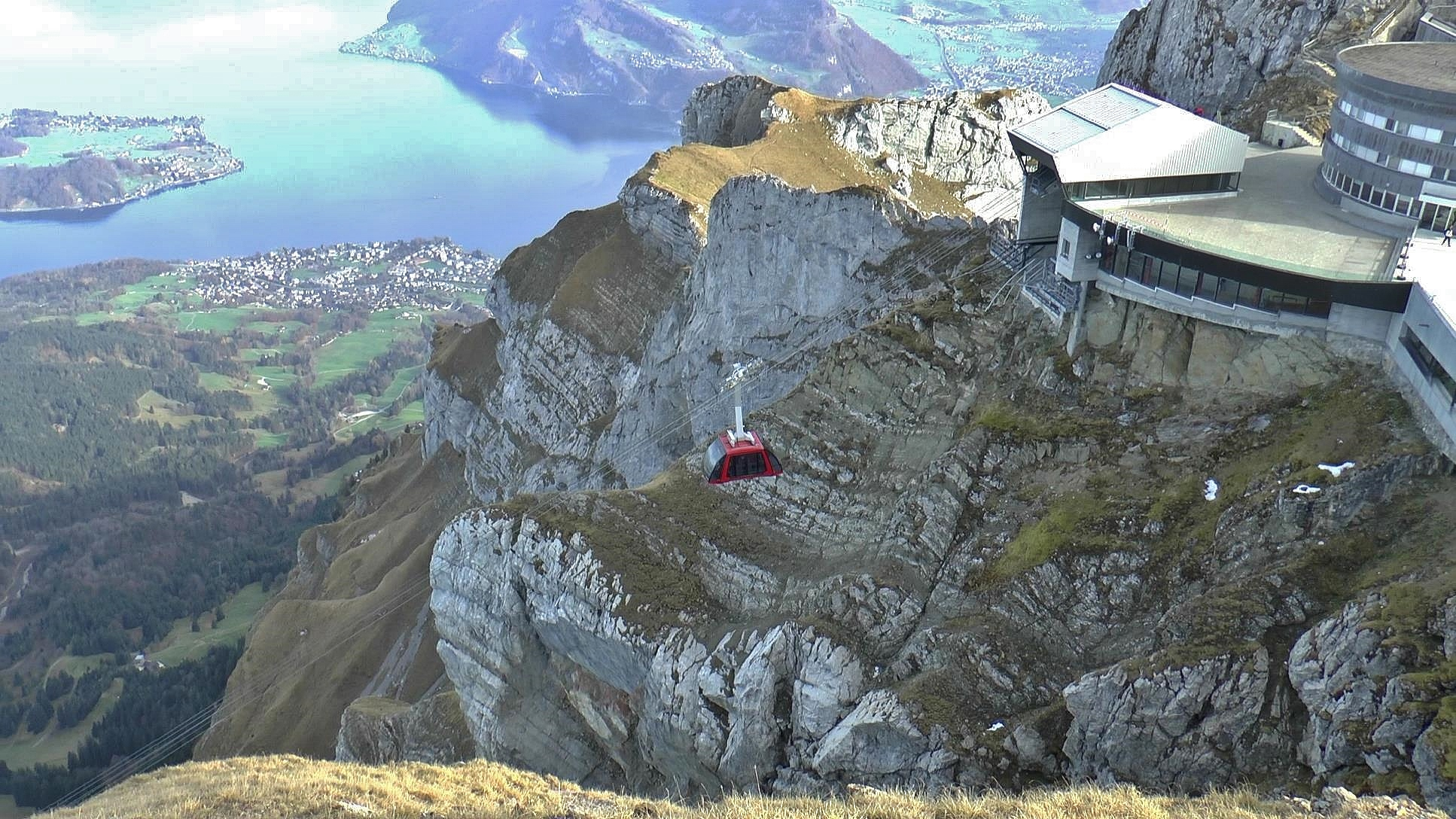 Pilatus cableway "Dragon Ride" since 2015, view towards Hergiswil.